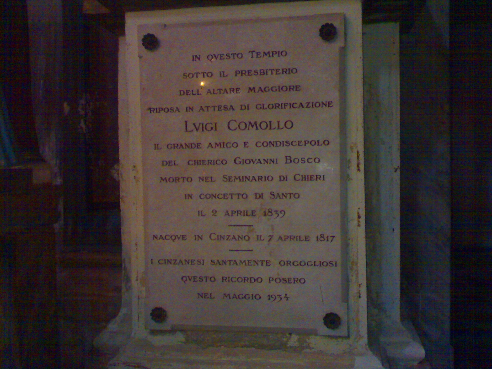 Monument on the tomb of Luigi Comollo, inside the church os San Filippo, Chieri (Torino)-Italy